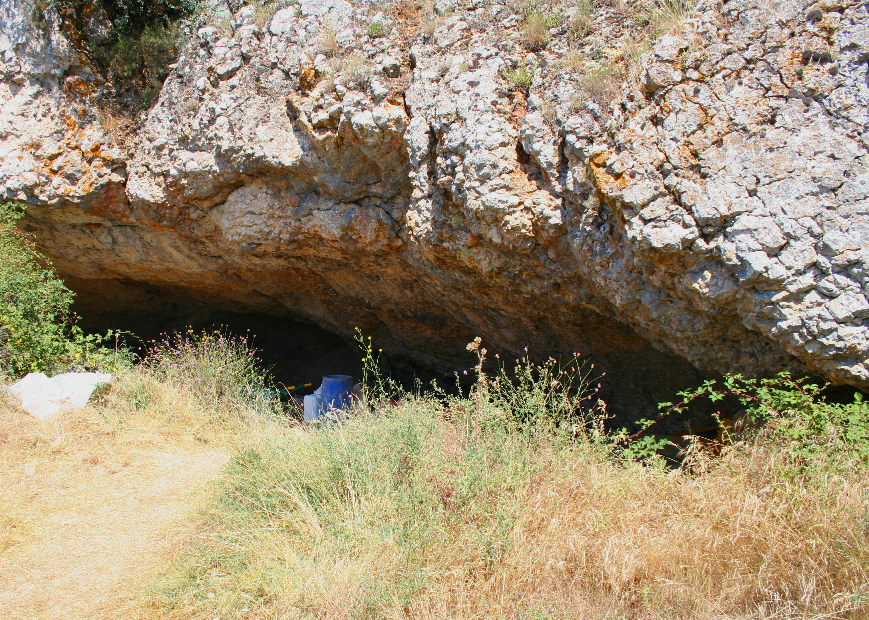 Mirador Cave, Atapuerca, Spain.